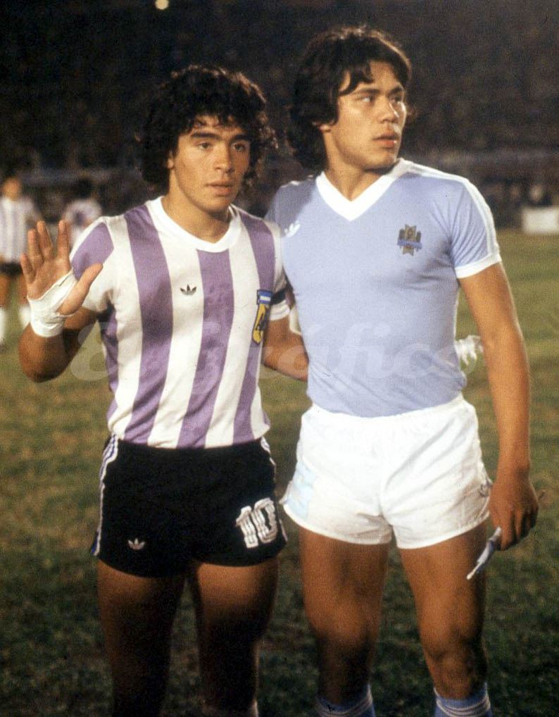 Diego Maradona (left) and Rubén Paz before a match of the 1979 South American U-20 Championship.